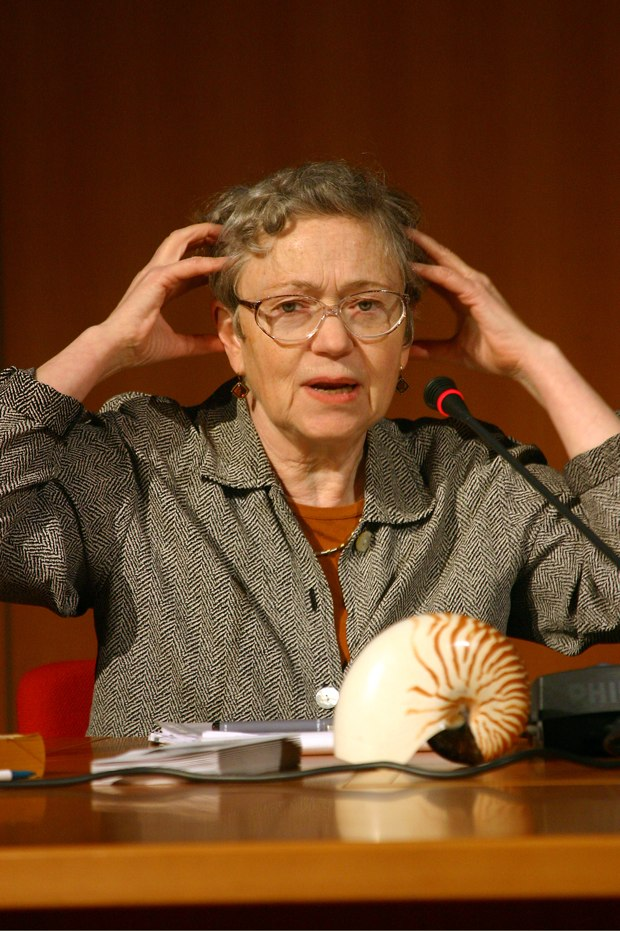 American anthropologist Mary Catherine Bateson at a conference. This event was part of the 2004 Festival della Scienza, held annually in Genoa, Italy.